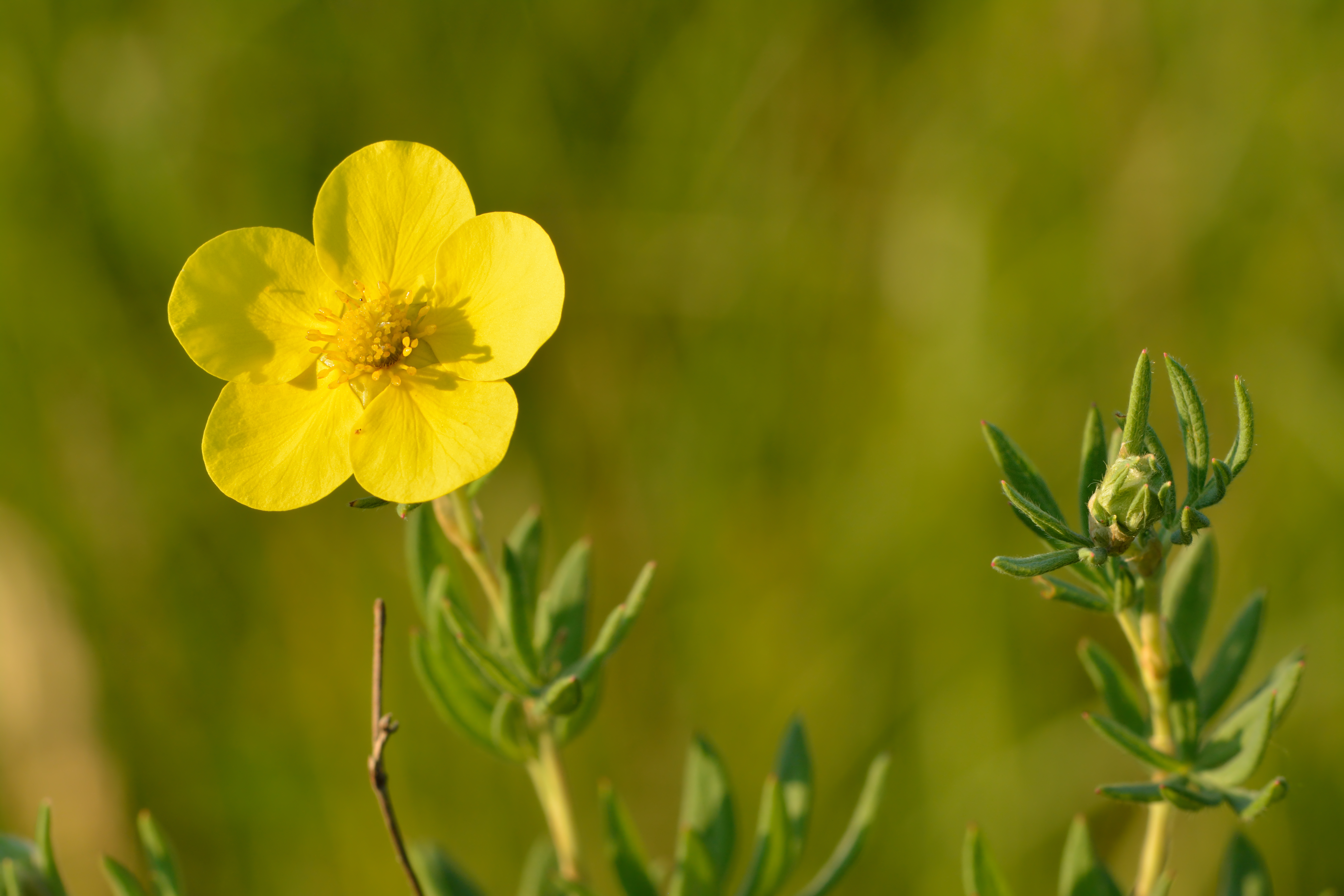 Shrubby cinquefoil (Dasiphora fruticosa). Vääna landscape reserve.